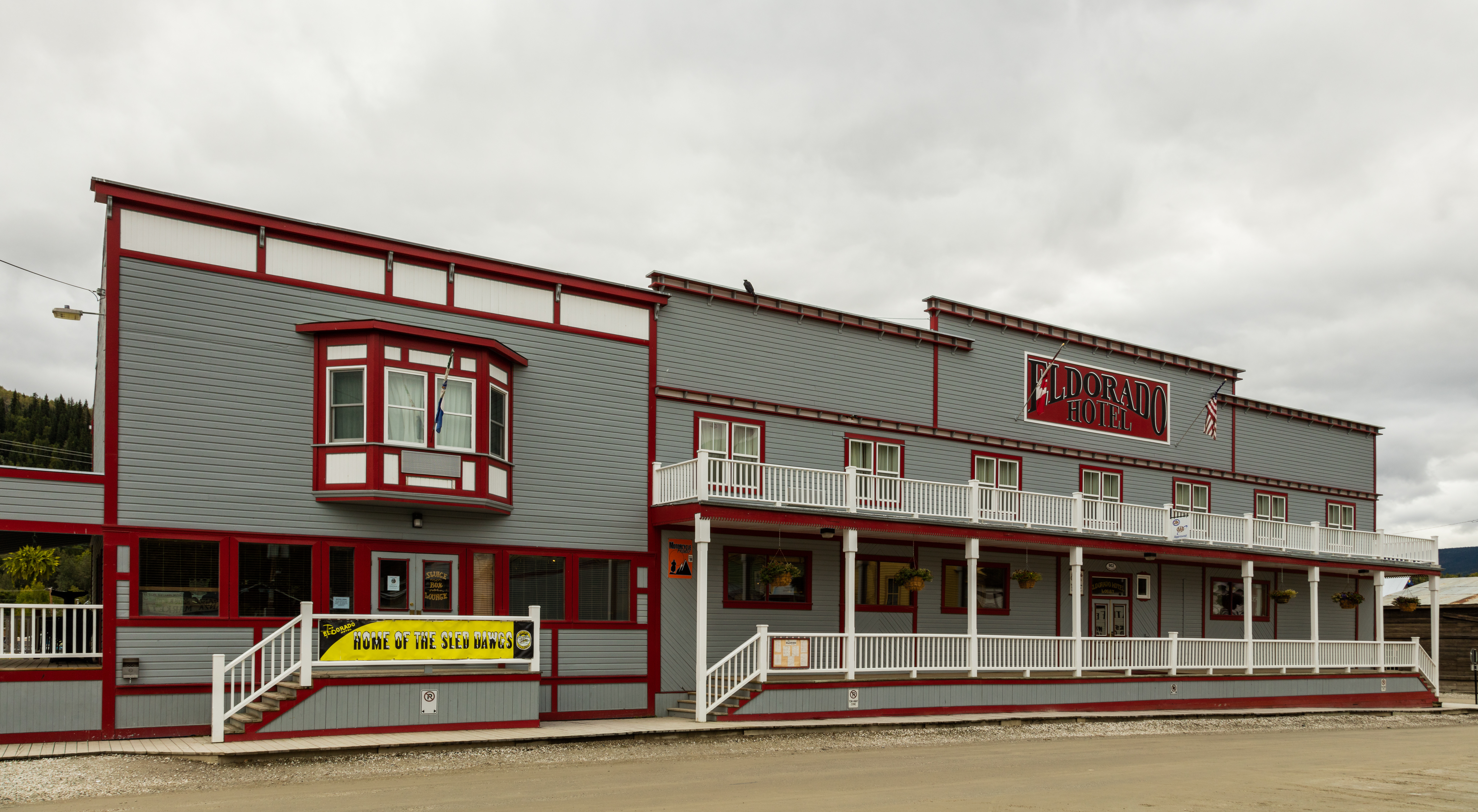 El Dorado Hotel, Dawson City, Yukon, Canada